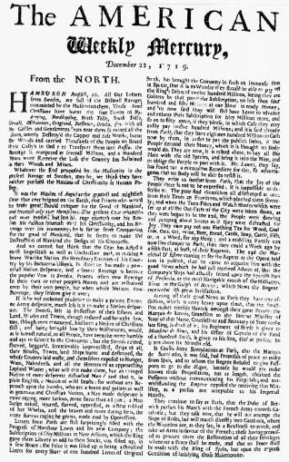 American Weekly Mercury; Date: 12-22-1719